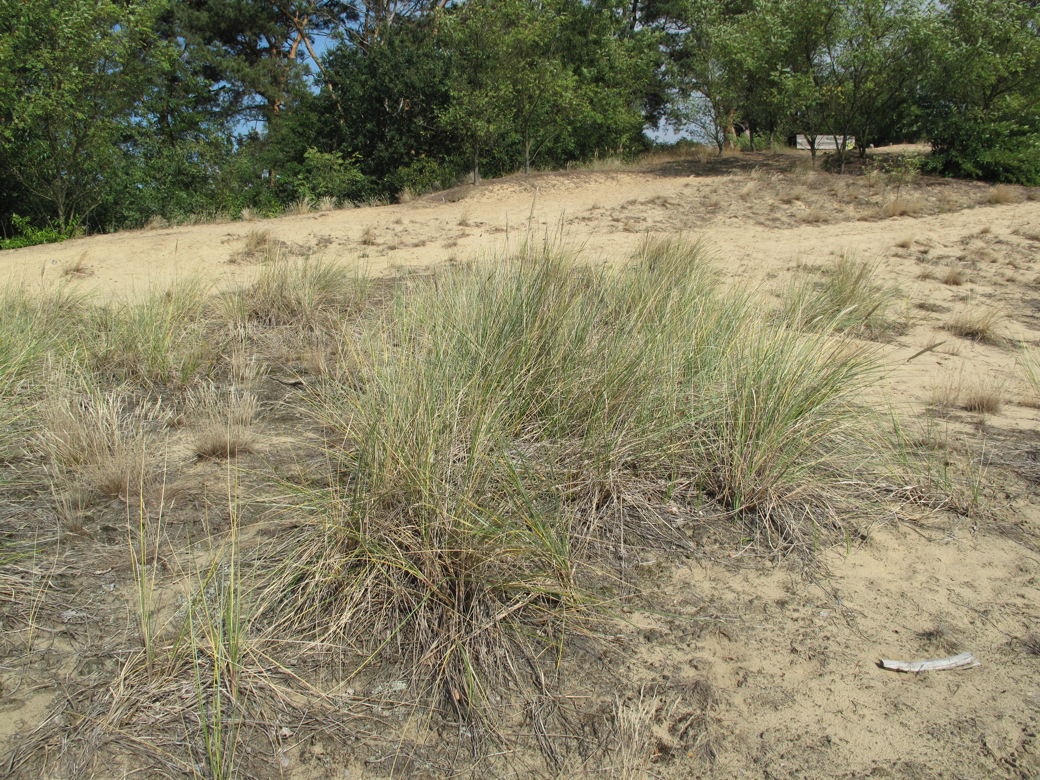 The „Binnendüne Waltersberge“ is one of the largest inland dunes in Brandenburg, Germany. The dune is situated in the town Storkow, District Oder-Spree, just over the eastern border of the Dahme-Heideseen Nature Park. The centre of the area, which covers about 14 hectare, is designated as a Naturschutzgebiet (protected area) and Natura 2000-area. Nearly just beside the northern bank of the Großer Storkower See (lake), rises above the dune with its largest peak, the Storkower Weinberg (69 metres), up to 32 metres over the sea.